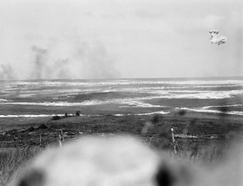 Infantry from the British 7th Division advancing towards German trenches at Mametz, 7.30am on 1 July 1916, the opening day of the Battle of the Somme.